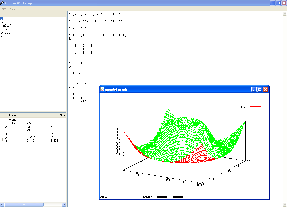 Octave with Octave Workshop GUI.